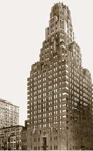 October 1929, Nicholas Roerich Museum in New York (Skyscraper-Museum, Master Building). 310 Riverside Drive, New York. Designed by Harvey Wiley Corbett (1873-1954). Museum ended in 1938. See 310 Riverside Drive now